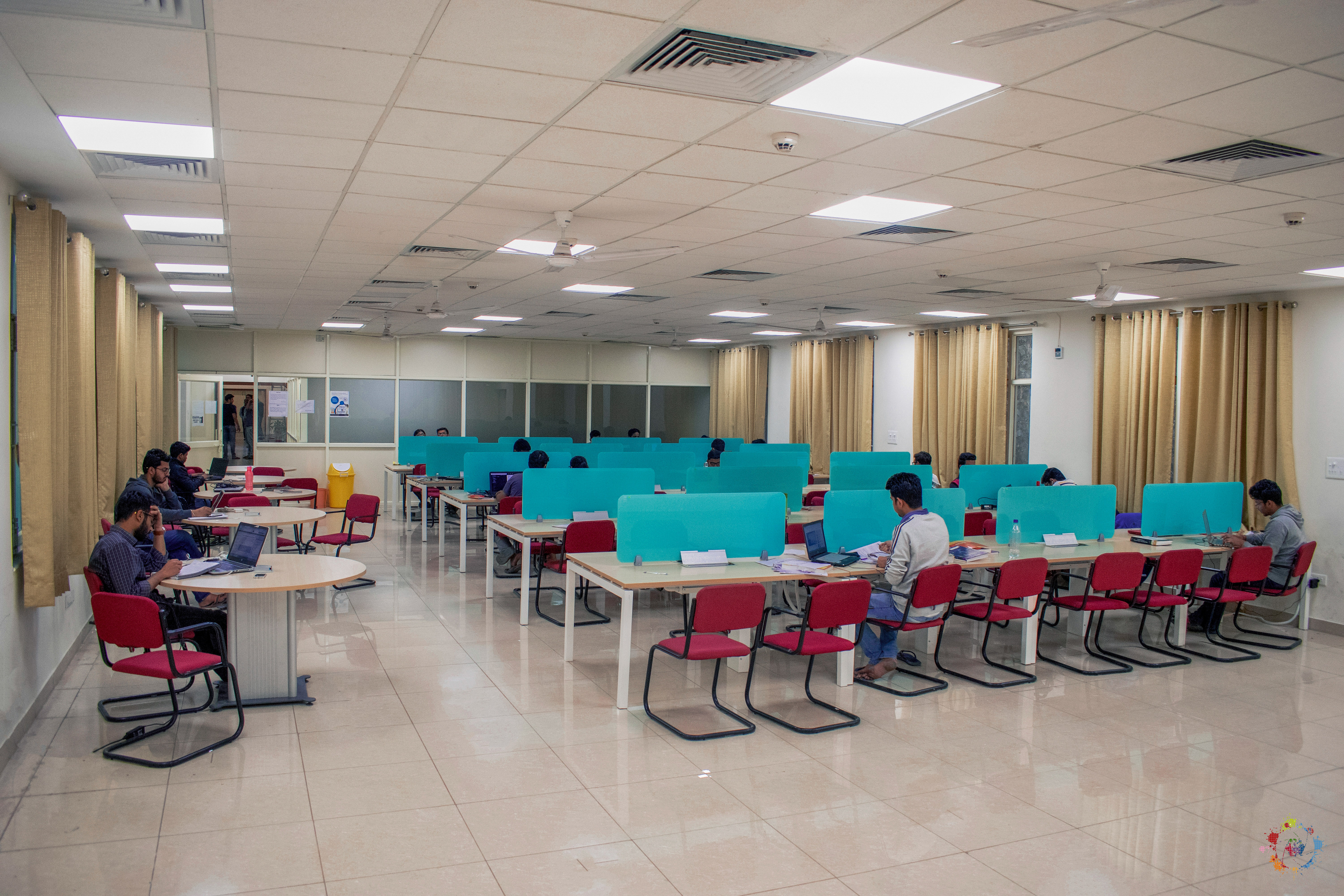 Students studying in Reading Hall-III of the main library, IIT (BHU)